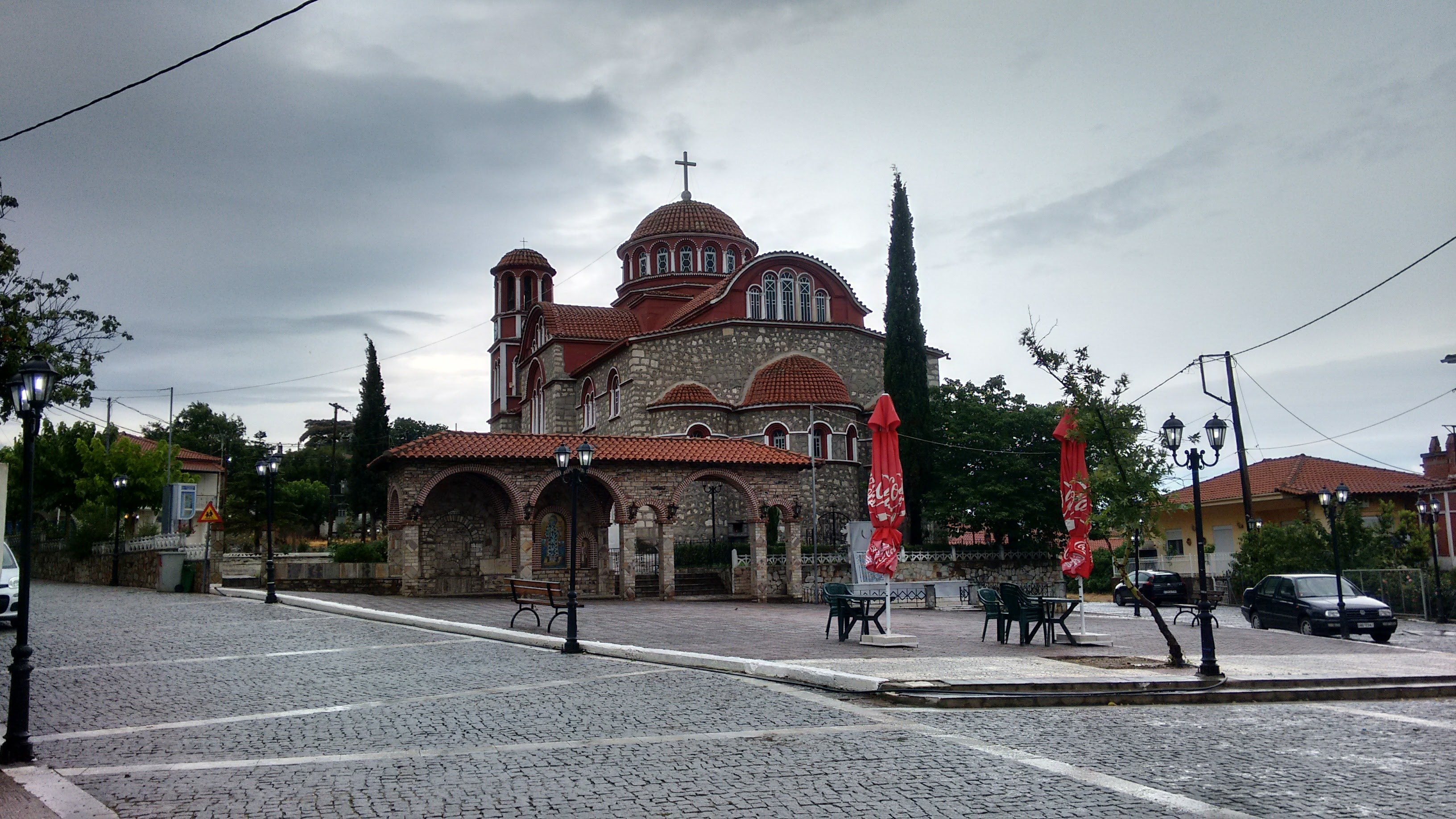 Church of Dadia